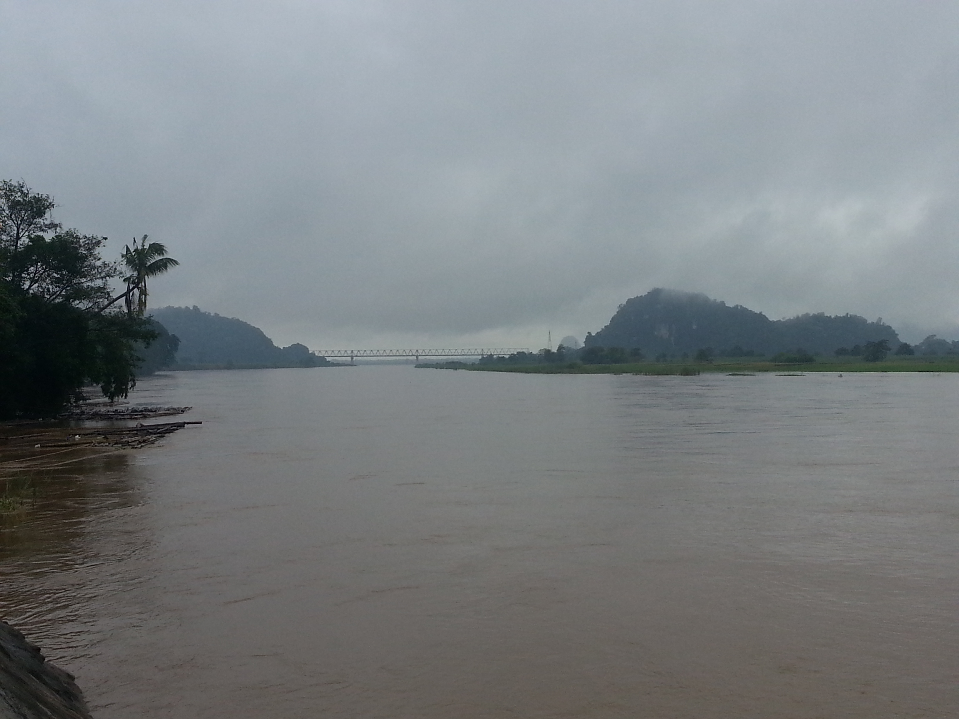 View of Than Lwin Bridge in Hpa-An